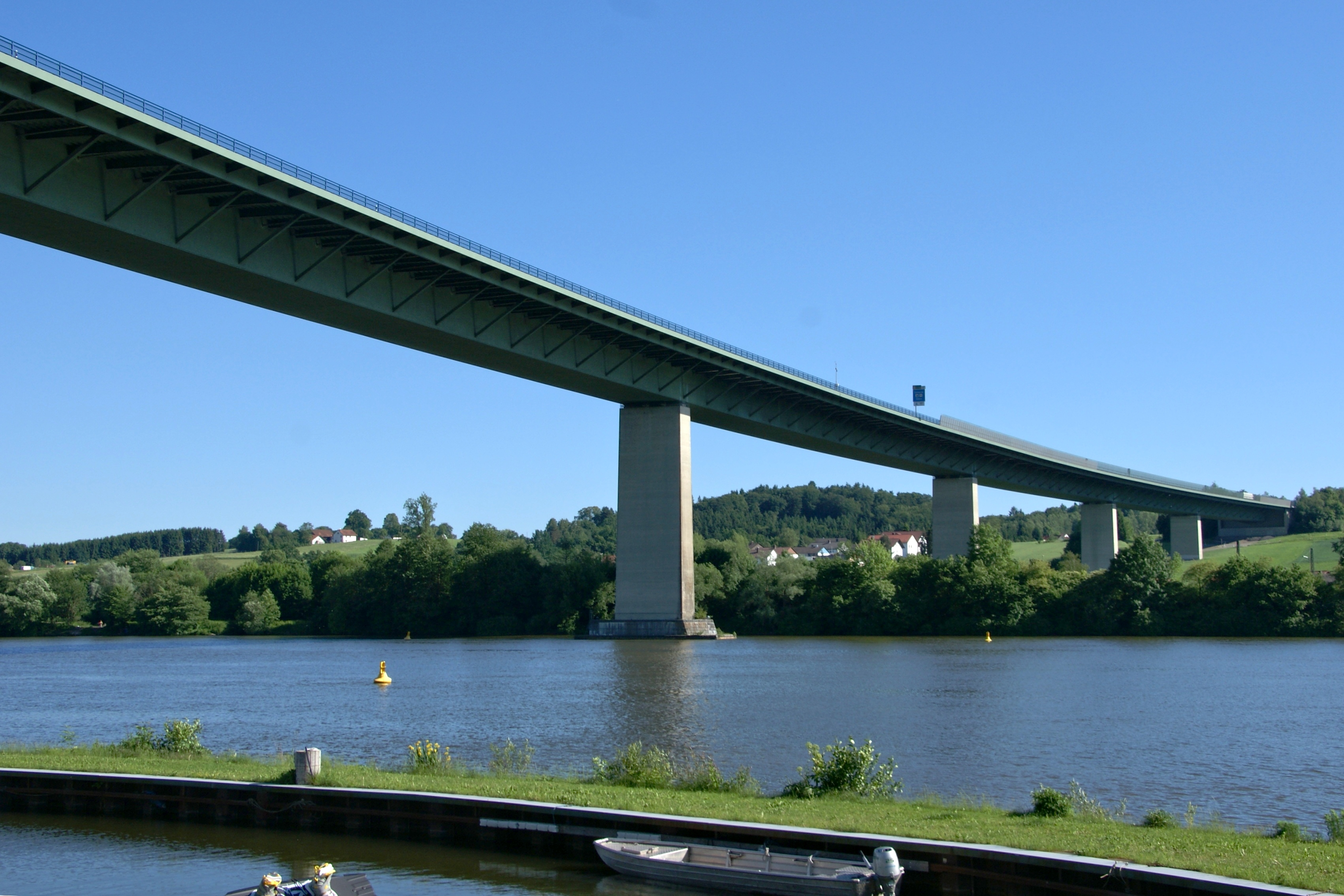 Bridge of the Federal Motorway 3 over the Danube in Passau